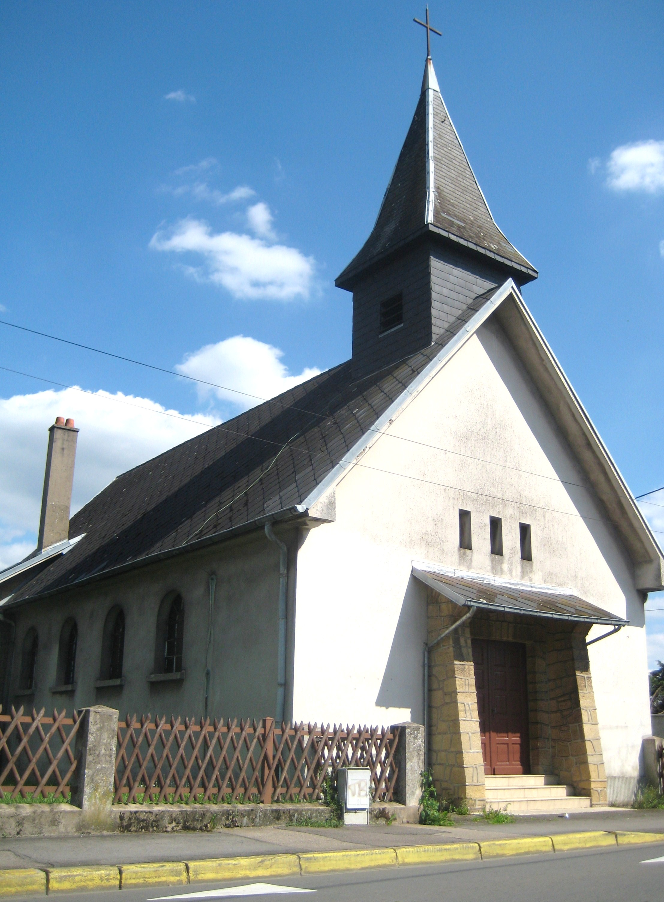 Description temple uckange Date26 August 2011Sourcemon appareil photoAuthorAimelaimePermission(Reusing this file) temple uckange